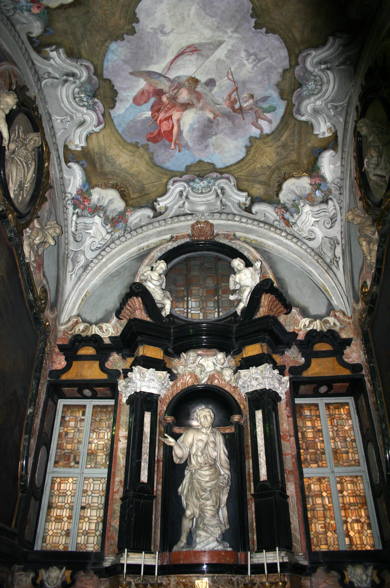 Giuseppe Rusnati, statue of Saint James the Great, in the "Saint James the apostle's chapel", the fifth one on the left-hand side of the nave of Sant'Angelo church in Milan, Italy. The frescos on the vault are by Giuseppe Antonio Castelli called "il Castellino" (circa 1718). Picture by Giovanni Dall'Orto, April 11 2007.